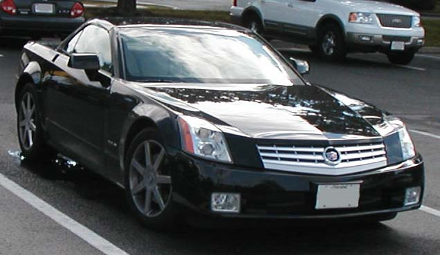 Cadillac XLR photographed in USA.